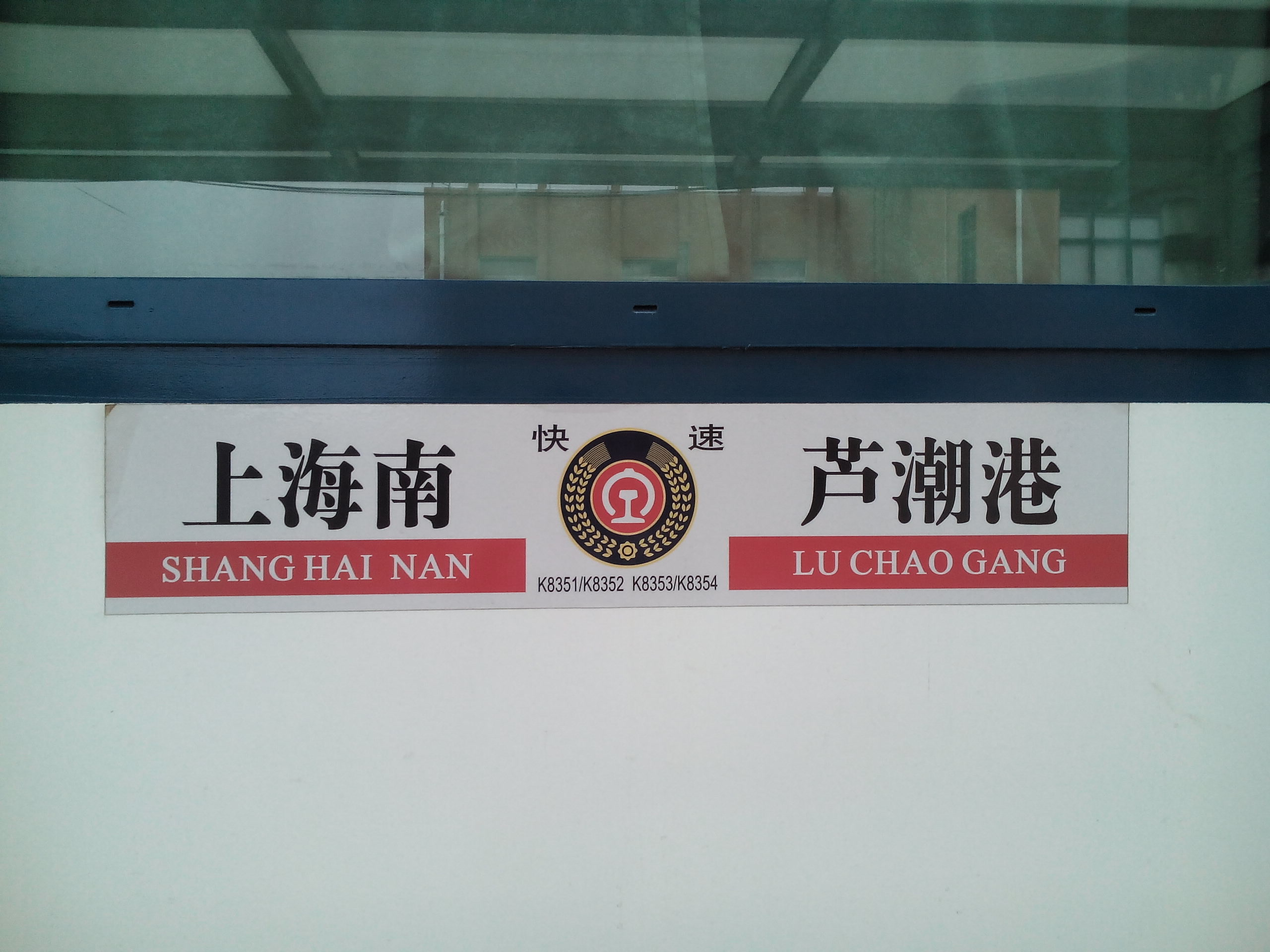 Information boards of K8351,2,3,4